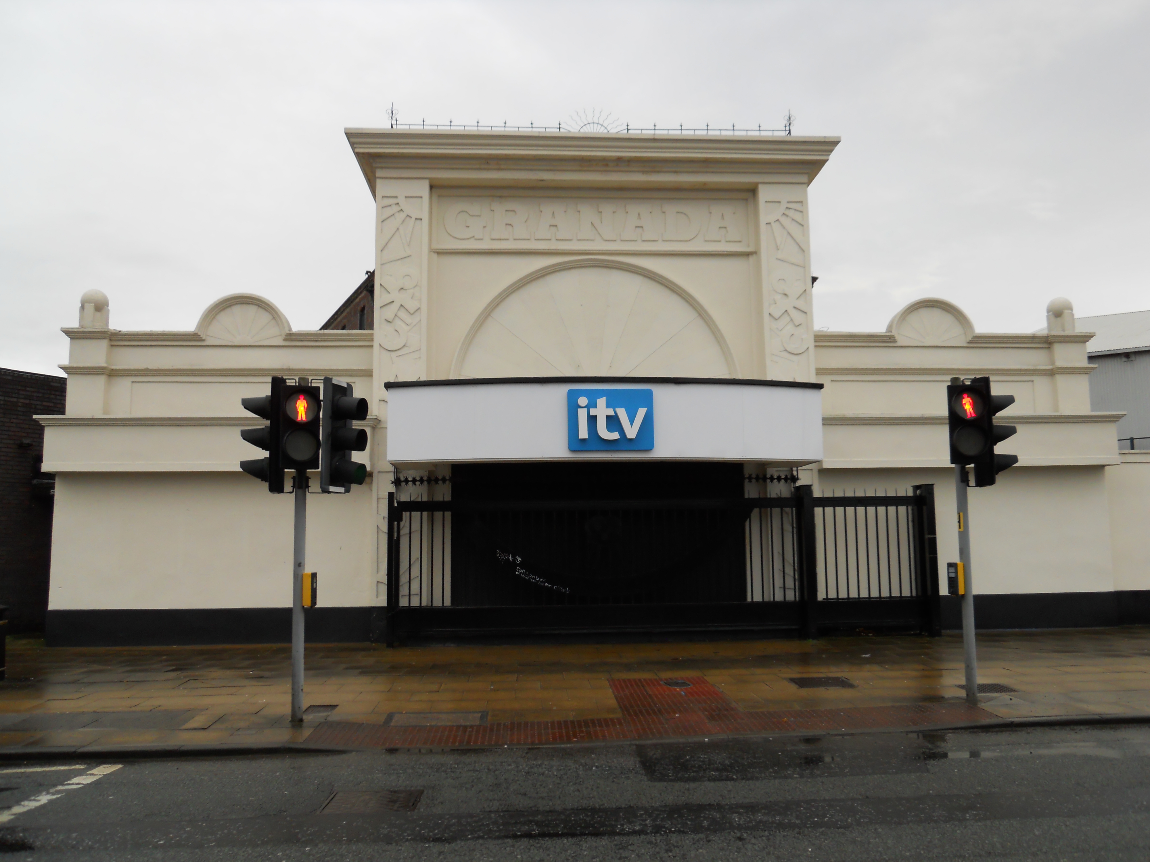 This once fine visitors attraction also allowed access to Coronation Street on days when they wern't filming - sadly now closed! :(